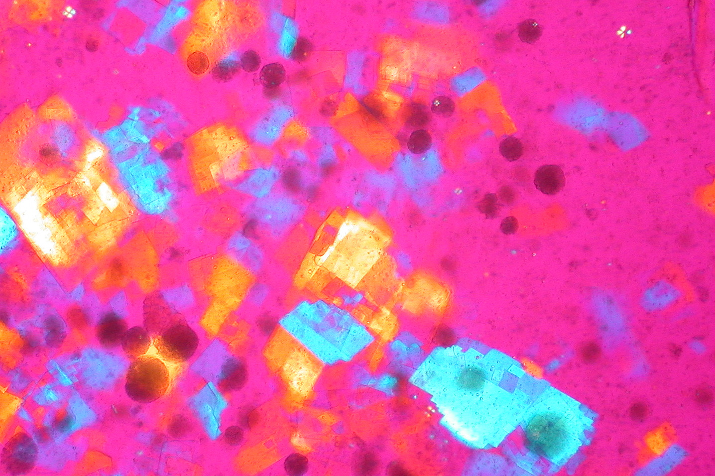 Numerous cholesterol crystals, as viewed in a direct microscopic examination of fresh synovial (joint) fluid, using crossed optical polarizers and a quarter-wave retarder plate. Cholesterol crystals are a rare finding in synovial fluid but have been reported in cases of rheumatoid arthritis. Cholesterol crystals are identified in medical specimens by their plate-like structures, which are often notched. They are much more commonly observed in urine.